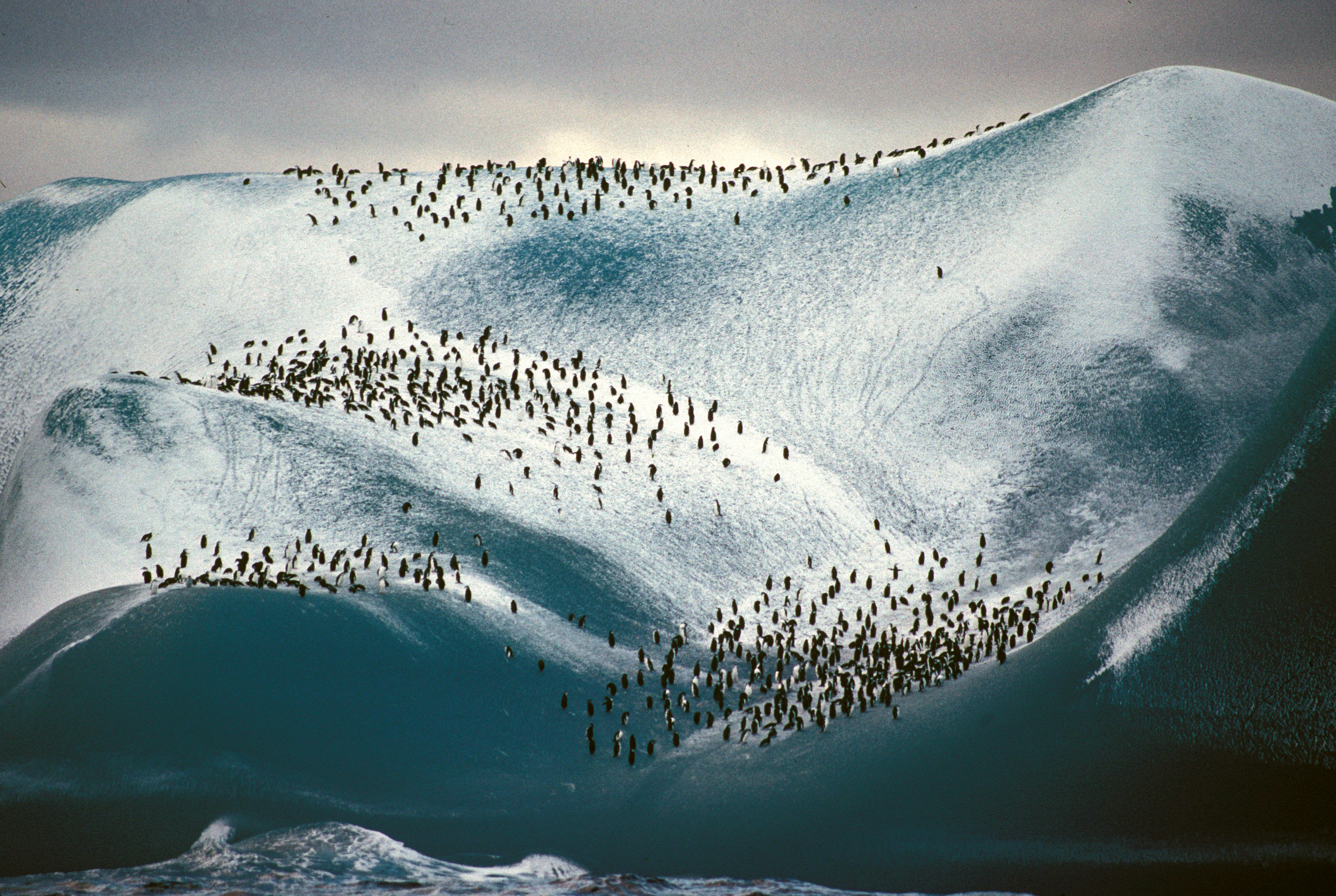 Iceberg with a resting group of Adelie penguins (Pygoscelis adeliae); the iceberg consists of blue ice, indicating that this is very old ice from deeper parts of the Antarctic ice sheet. Image was taken in the northern part of the Weddell Sea, Southern Ocean, Antarctica during expedition ANT-VIII/3 of the german research vessel POLARSTERN.